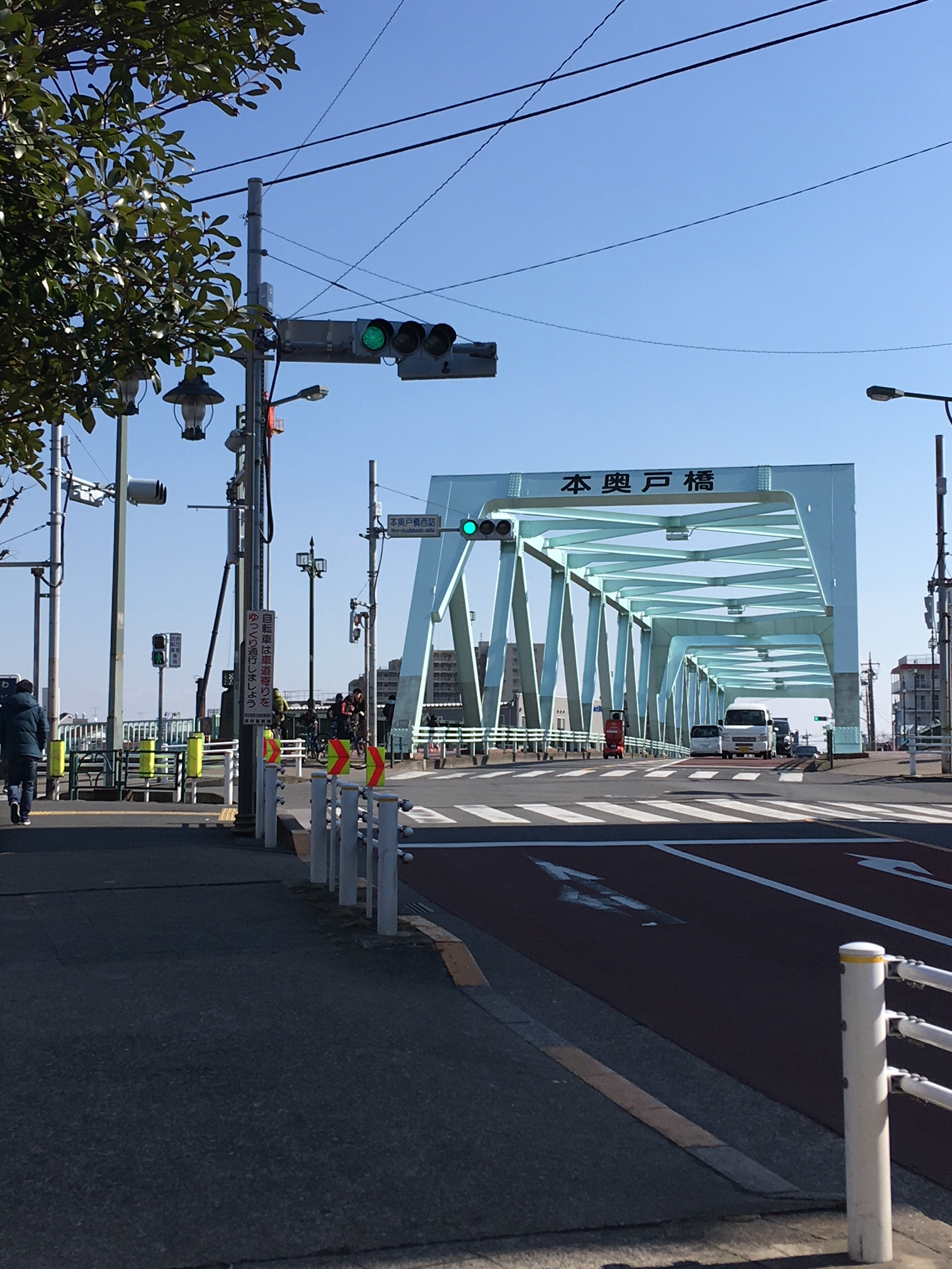 "Hon-Okudo" bridge in Katsushika city in Tokyo